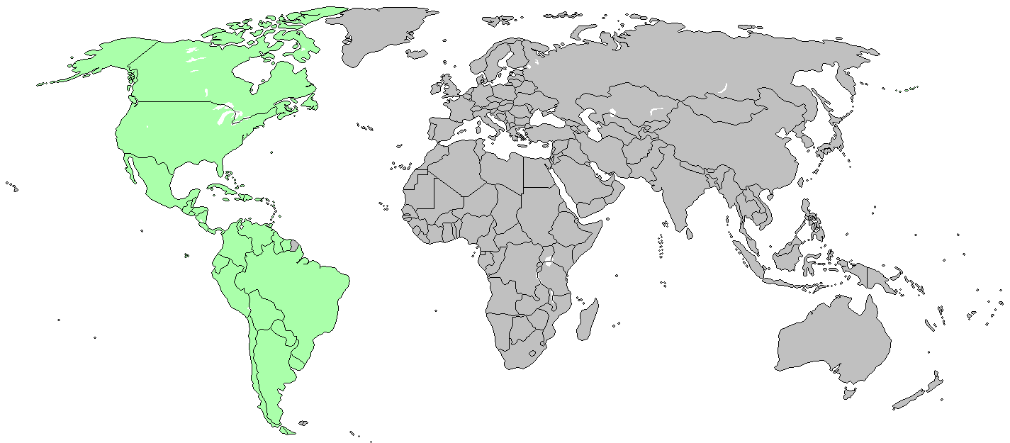 This world map illustrates the nations that have national member society representation in the International Amateur Radio Union. This map was created by Kenneth E. Harker WM5R of Austin, USA, in January, 2009. References International Amateur Radio Union (2008). "Member Societies". Retrieved January 21, 2009.